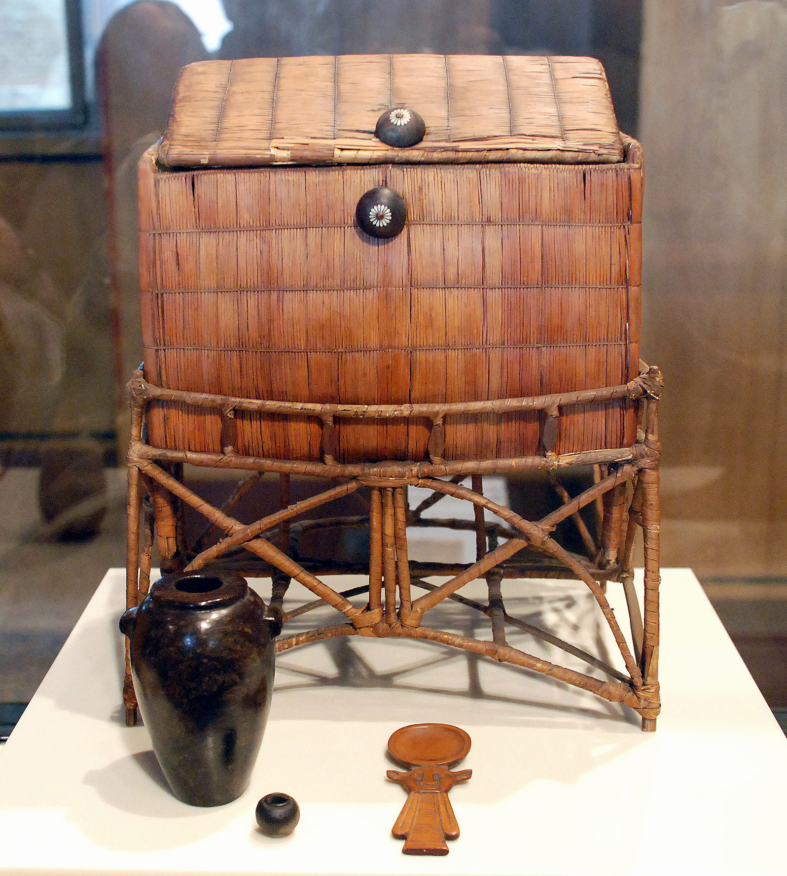 Cosmetics box of Queen Mentuhotep the wife of king Sekhemre-sementawy Djehuti, from Dra Abu el-Naga. Material: Wood and papyrus, Berlin. Neues Museum, AM 1175, height 24cm